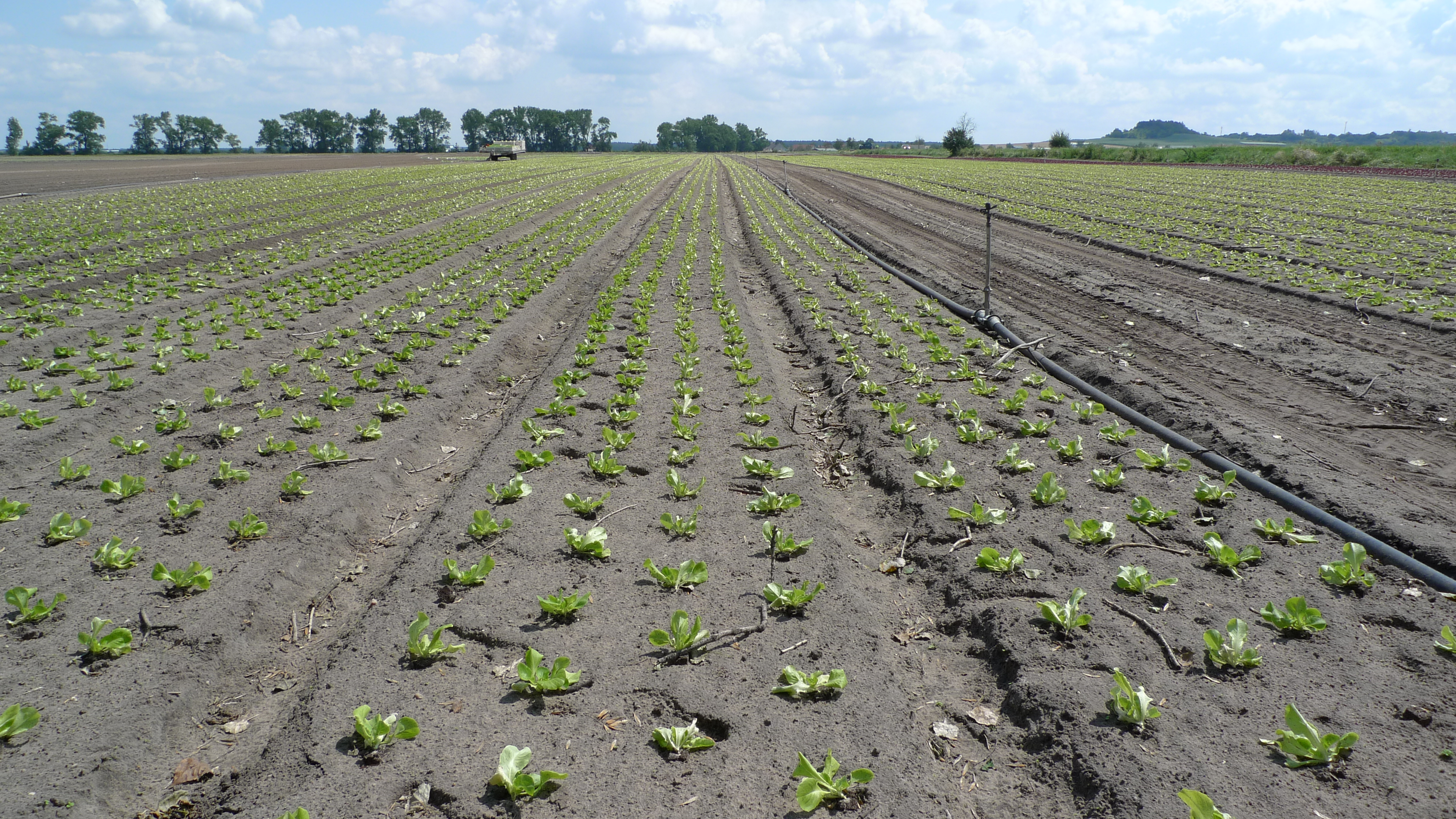 Agriculture in Polabí, Přerov nad Labem, Czech Republic